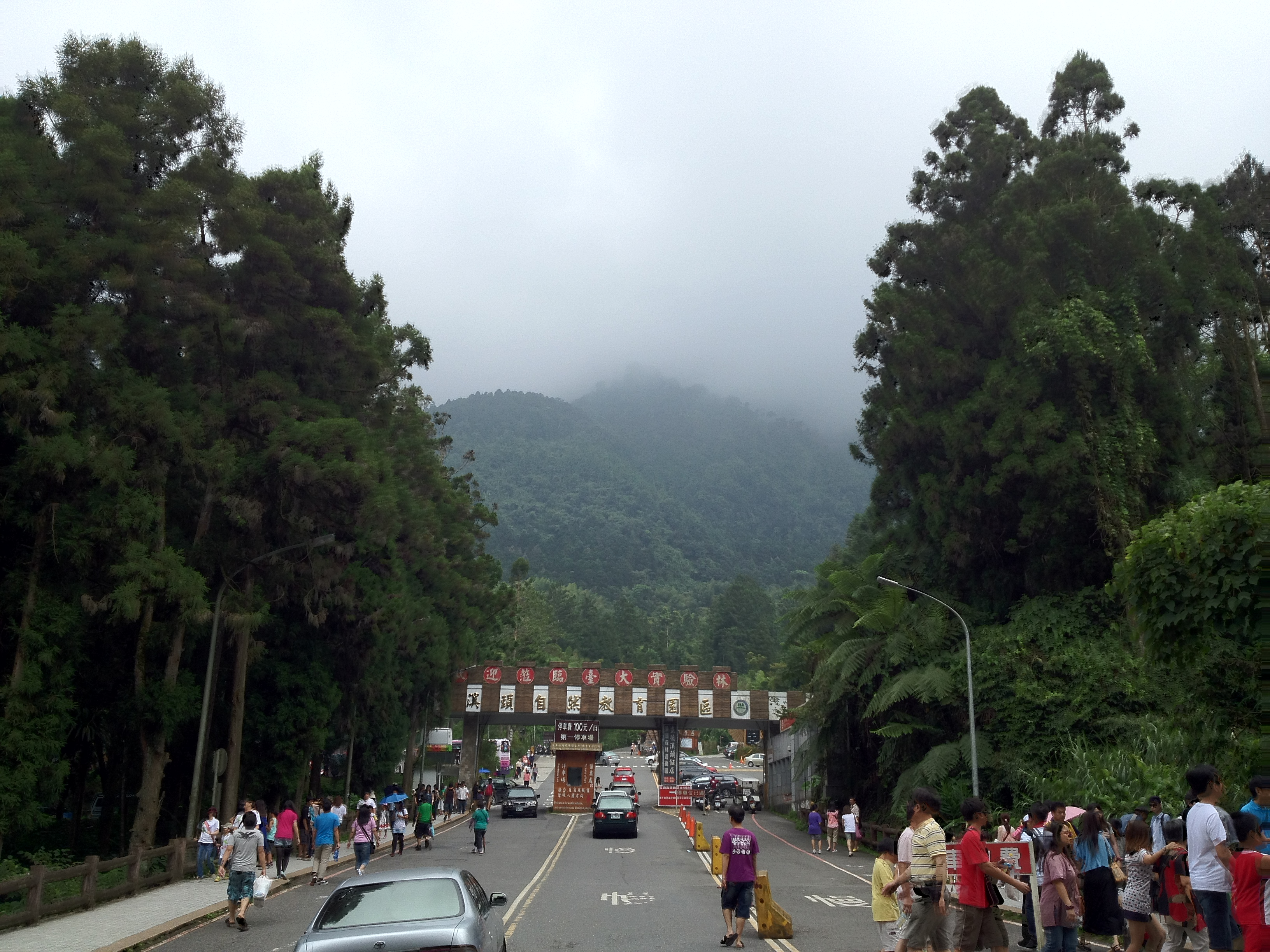 Another view of the entrance at Xitou Nature Education Area showing the crowds on holiday.